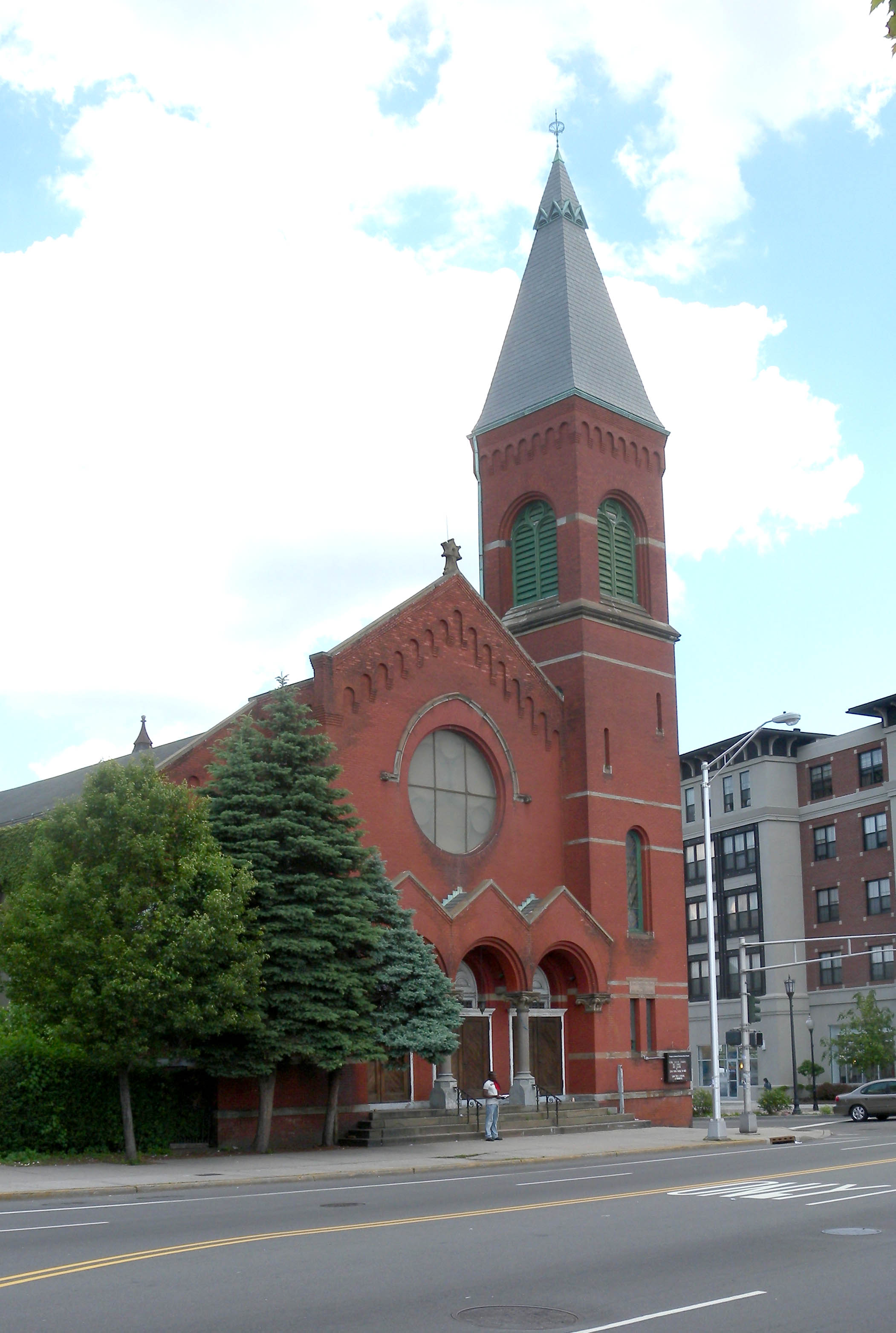 Looking northeast at the Brick Church for which a western part of East Orange, New Jersey was named on a mostly sunny midday.